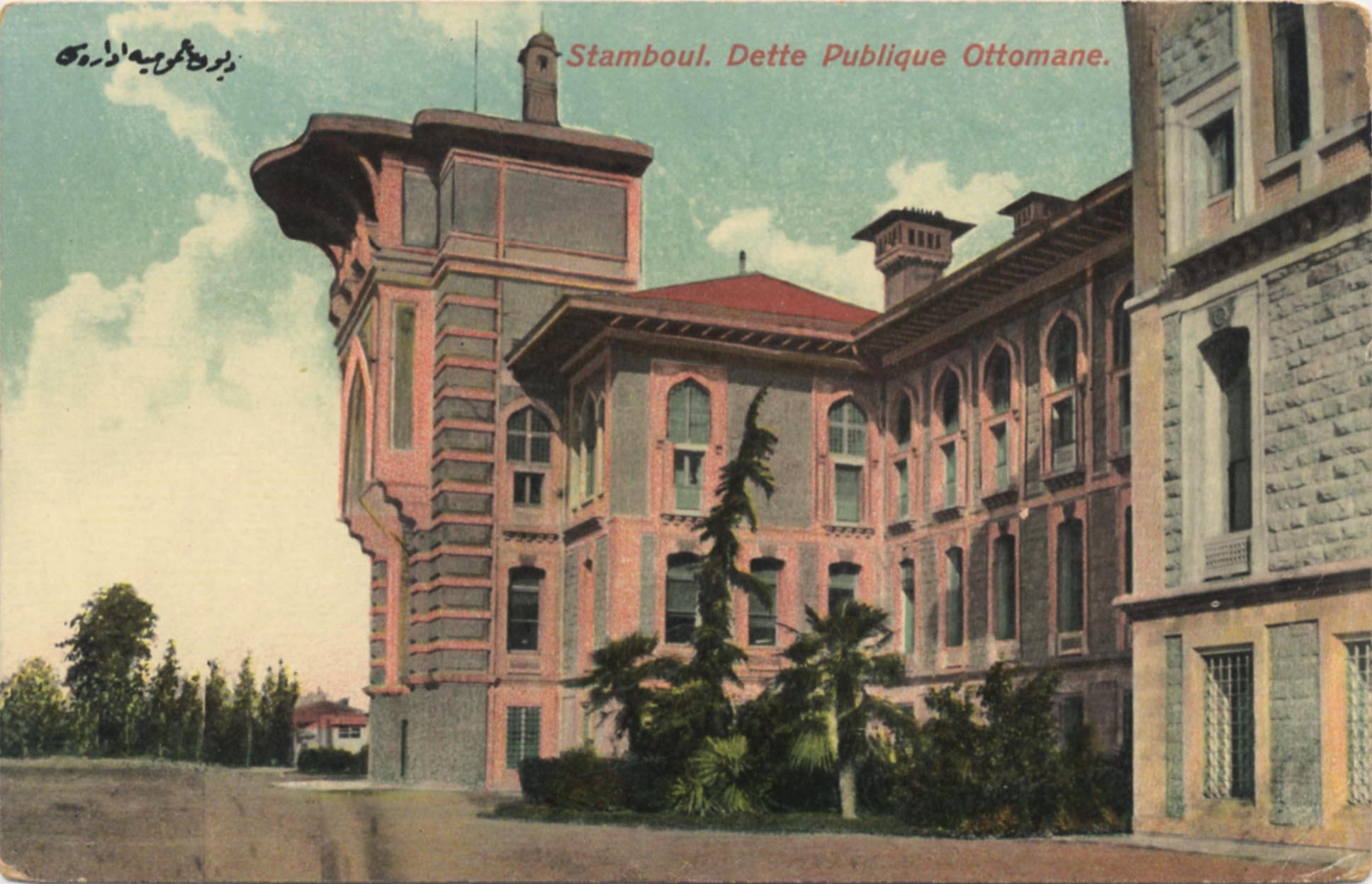 Osmanlı Devleti’nin dış borçlarını yönetmek amacıyla 1881’de kurulan Düyûn-ı Umûmiye İdaresi ilk olarak İstanbul, Bahçekapı’da bulunan Köprülü Han’da faaliyet gösterdi. Bir süre sonra hanın kapasitesinin yetersiz kalması nedeniyle kurum, mimar Alexandre Vallaury’ye Cağaloğlu’nda yaptırılan görkemli bir binaya taşındı. Dönemin mimarlık eğilimlerine uygun olarak Birinci Ulusal Mimarlık üslubunda tasarlanan bina, Düyûn-ı Umûmiye’nin yetkilerinin kaldırılması üzerine bir dönem boş kaldı. 1933’te Mustafa Kemal Atatürk’ün emriyle İstanbul Lisesi’nin kullanımına verildi. İstanbul Lisesi hâlen aynı binada eğitim-öğretime devam etmektedir. SALT Araştırma, Fotoğraf Arşivi